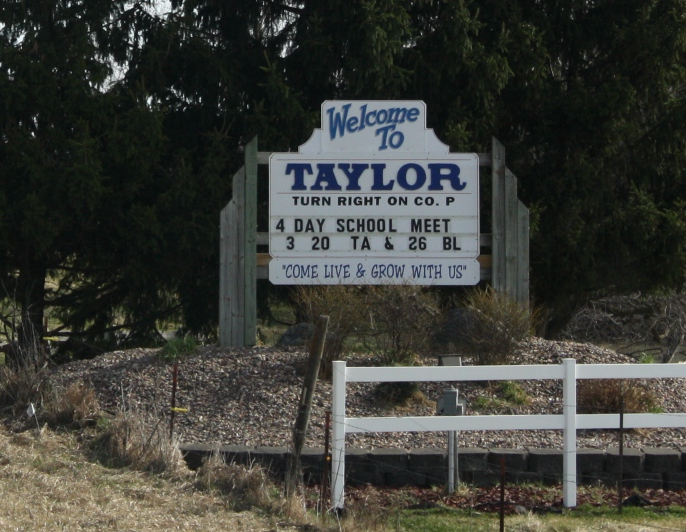 The sign for Taylor, Wisconsin along Wisconsin Highway 95.